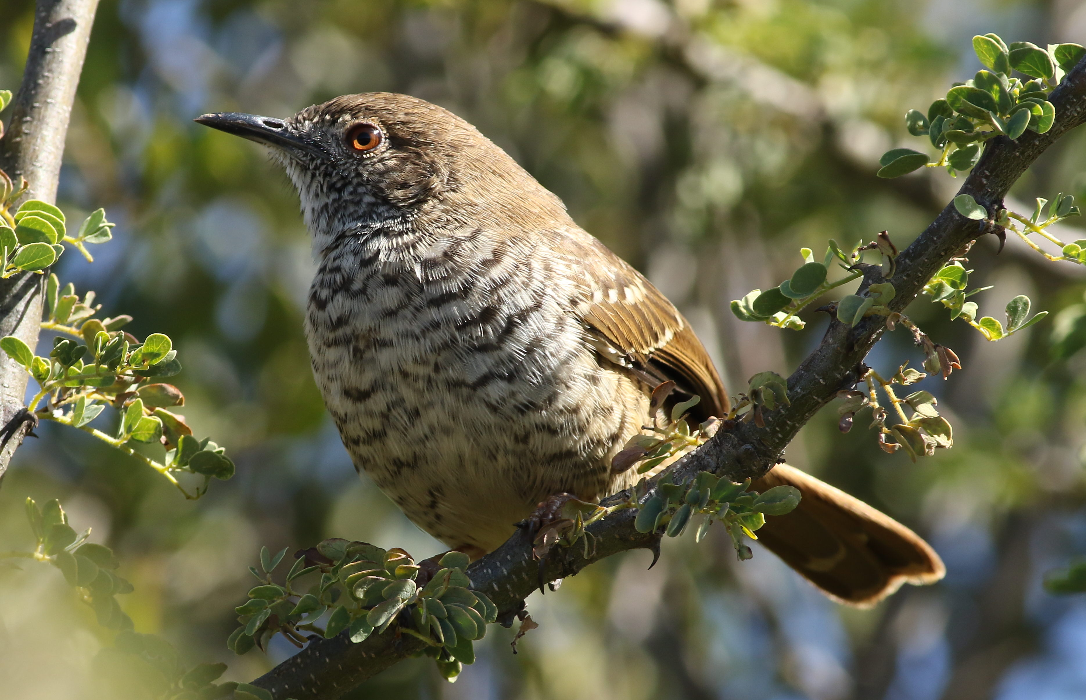 Barred wren-warbler, Calamonastes fasciolatus, at Pilanesberg National Park, Northwest Province, South Africa